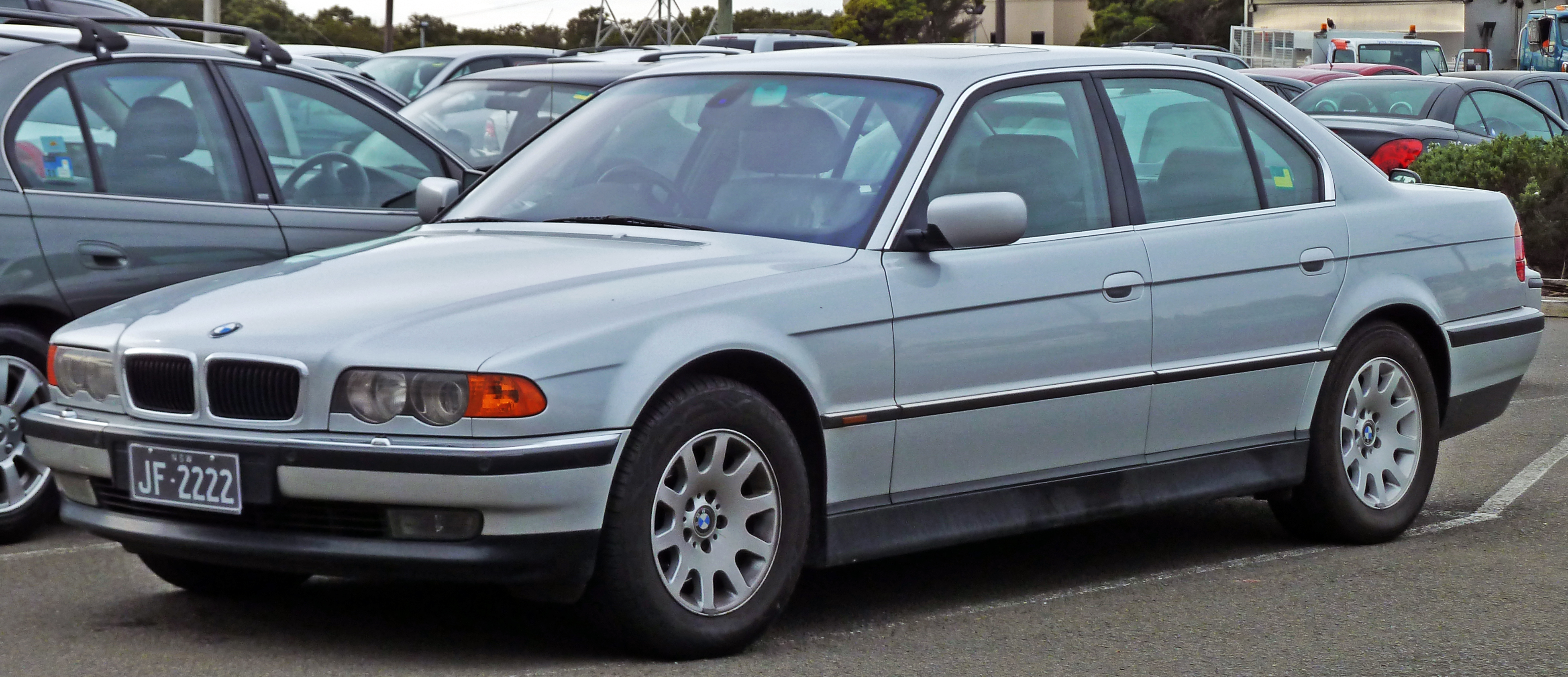 1998–2000 BMW 735i (E38) sedan. Photographed in Woolooware, New South Wales, Australia.